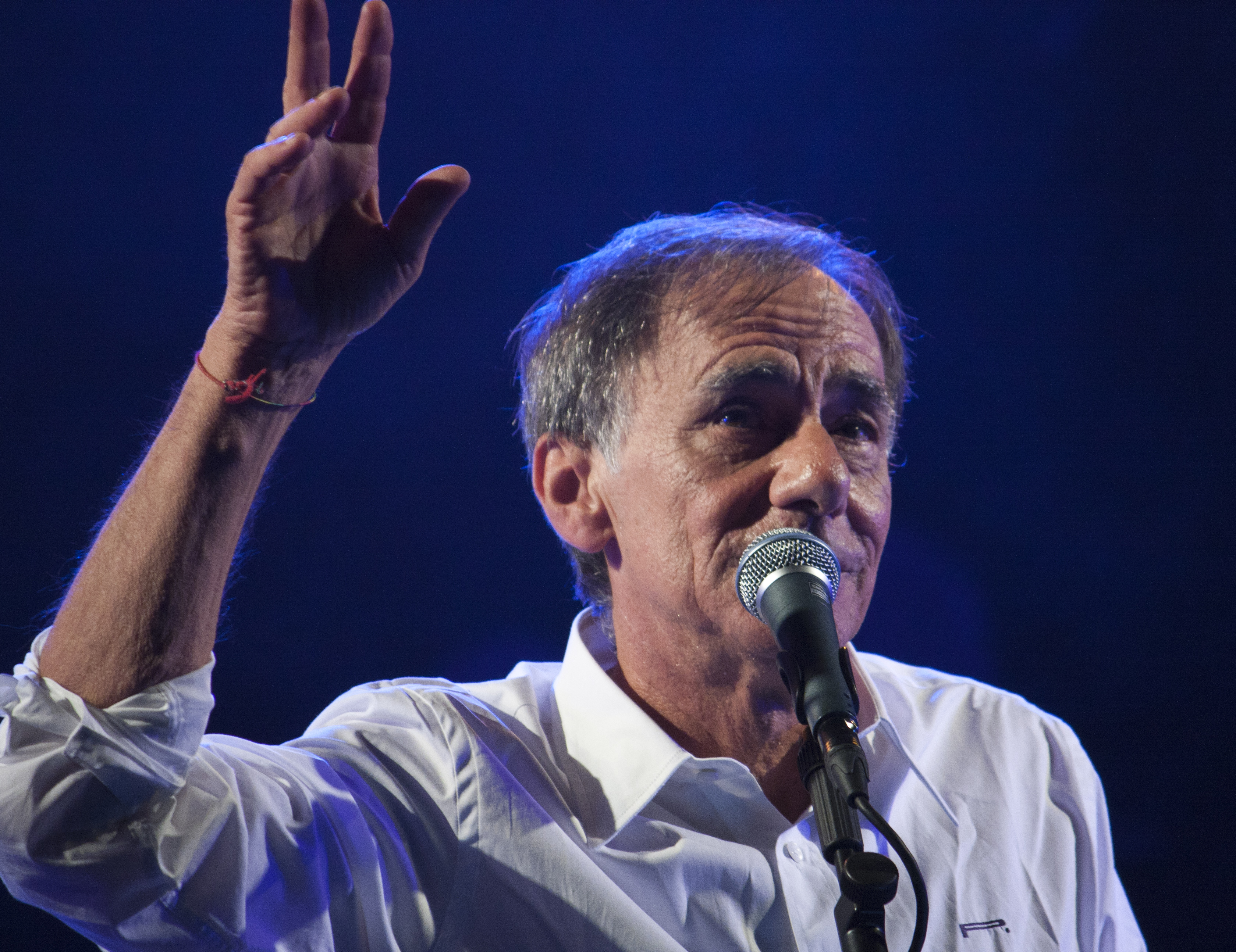 Italian singer-songwriter Roberto Vecchioni performing at the Teatro Smeraldo in Verona on 29 May 2011